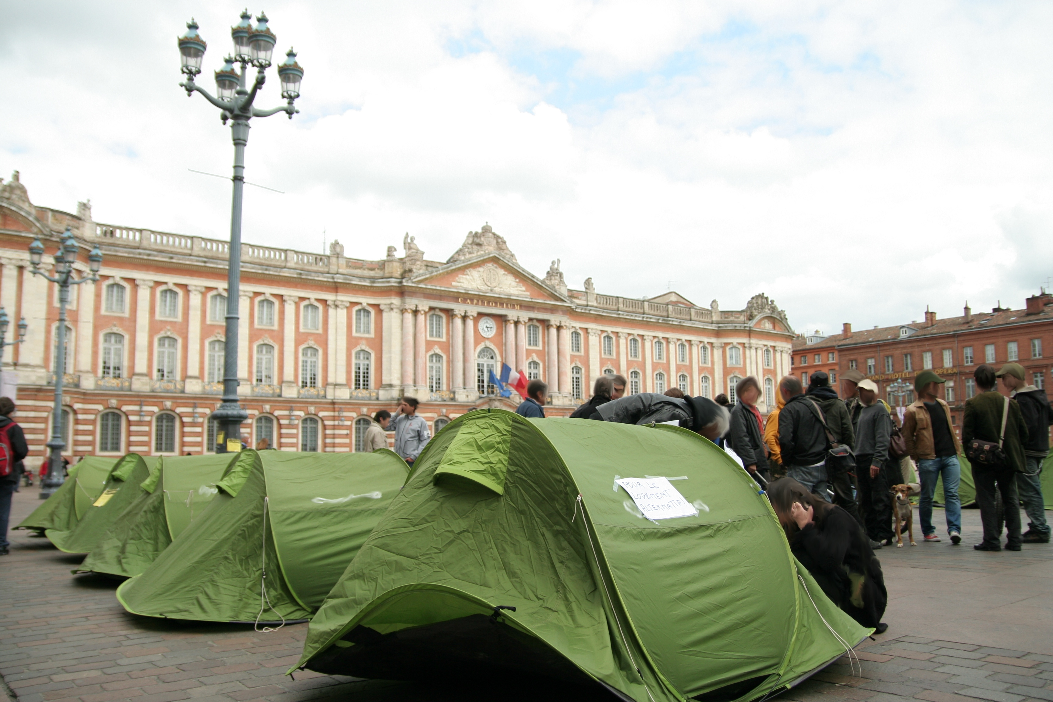 Tents installed by charity "Les Enfants de Don Quichotte" on the Capitole place, Toulouse (France), May 2009.